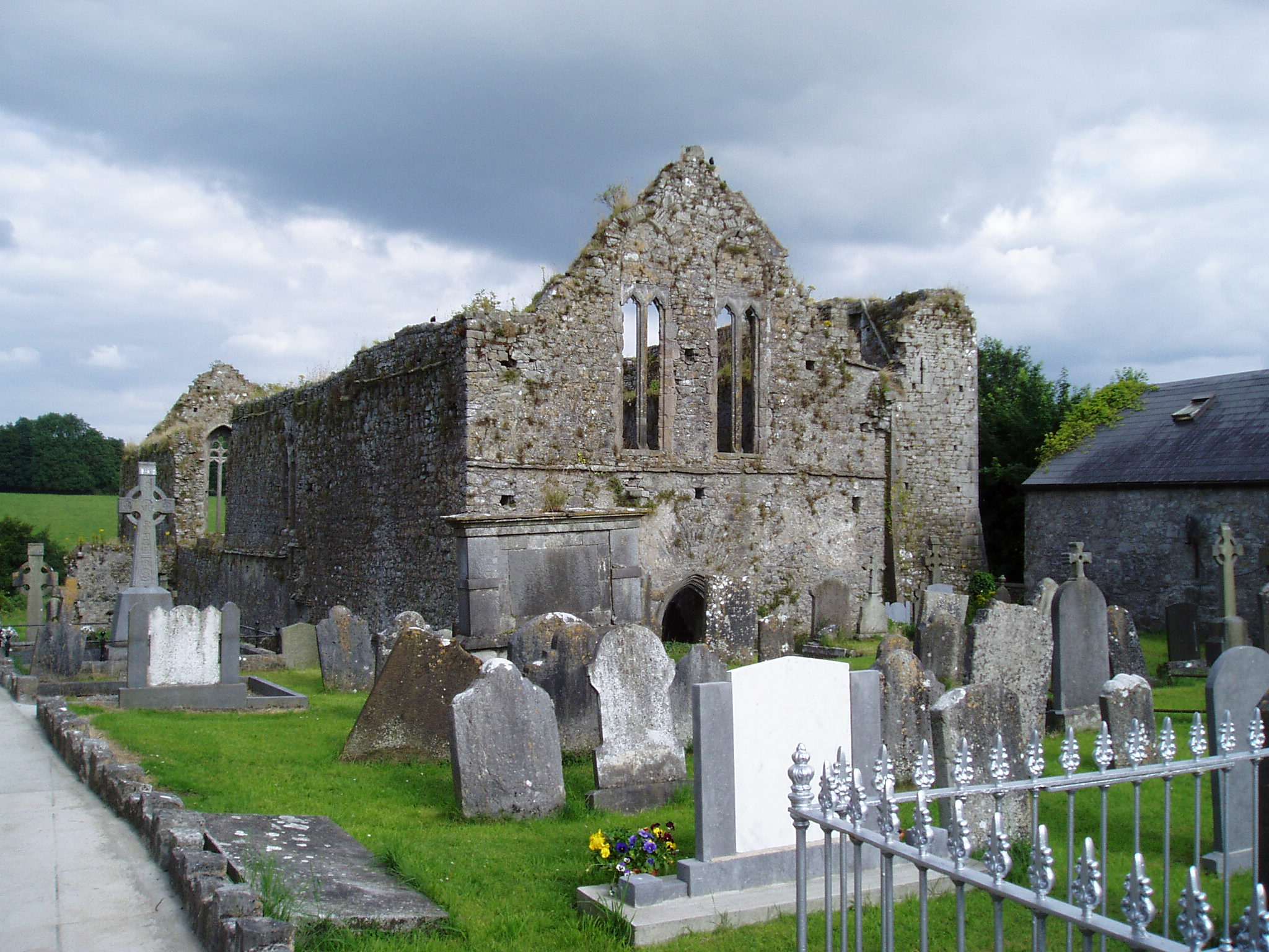 Buttevant Abbey, Co. Cork, Ireland